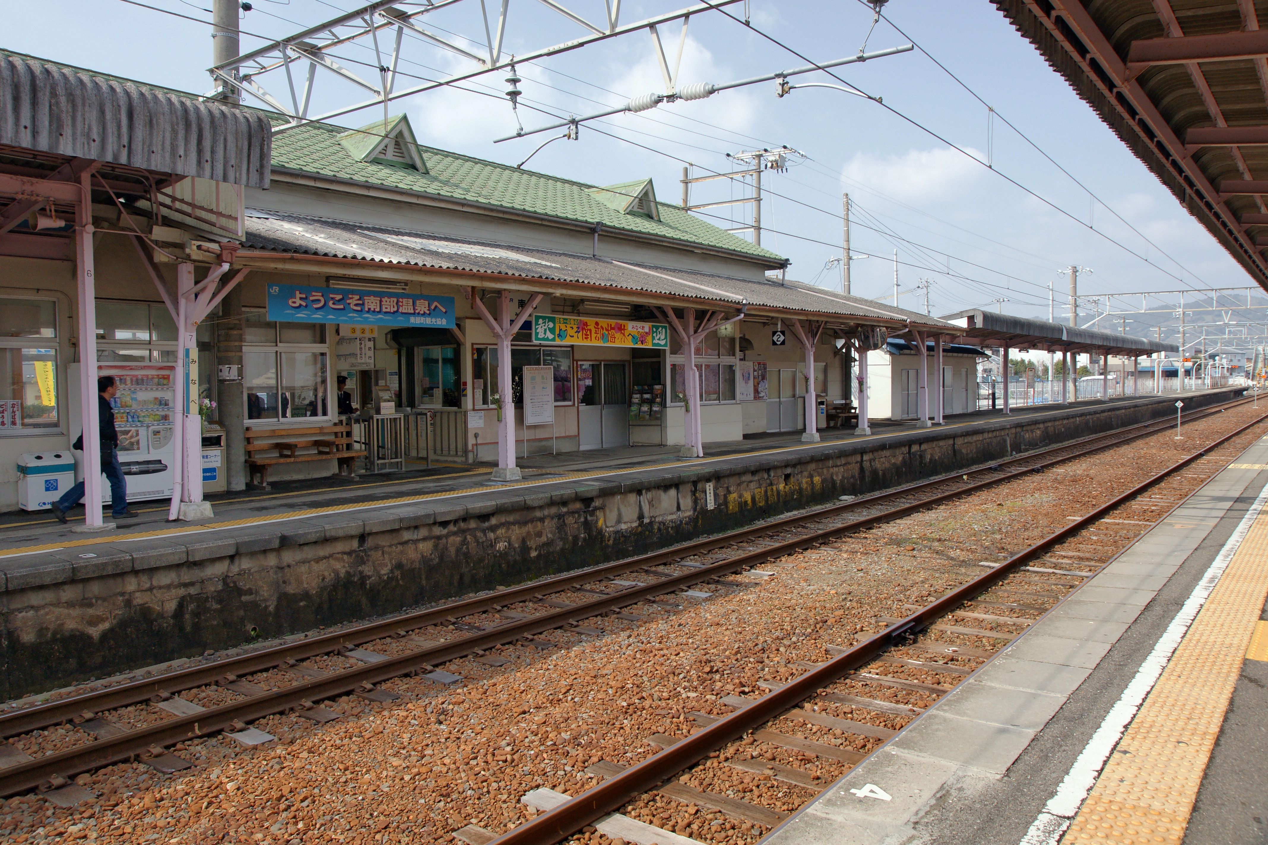 Minabe Station, Minabe, Wakayama prefecture, Japan